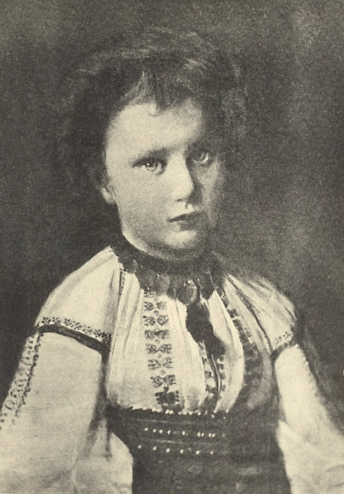 Princess Maria of Romania (1871 - 1874)